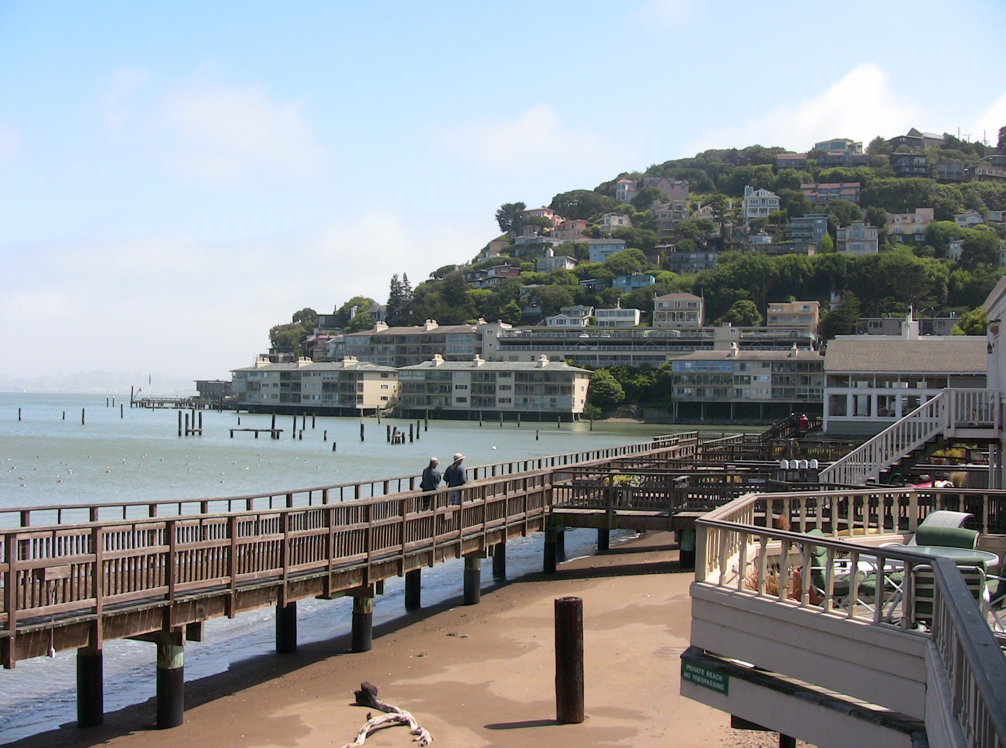 Sausalito, California (May 2009)